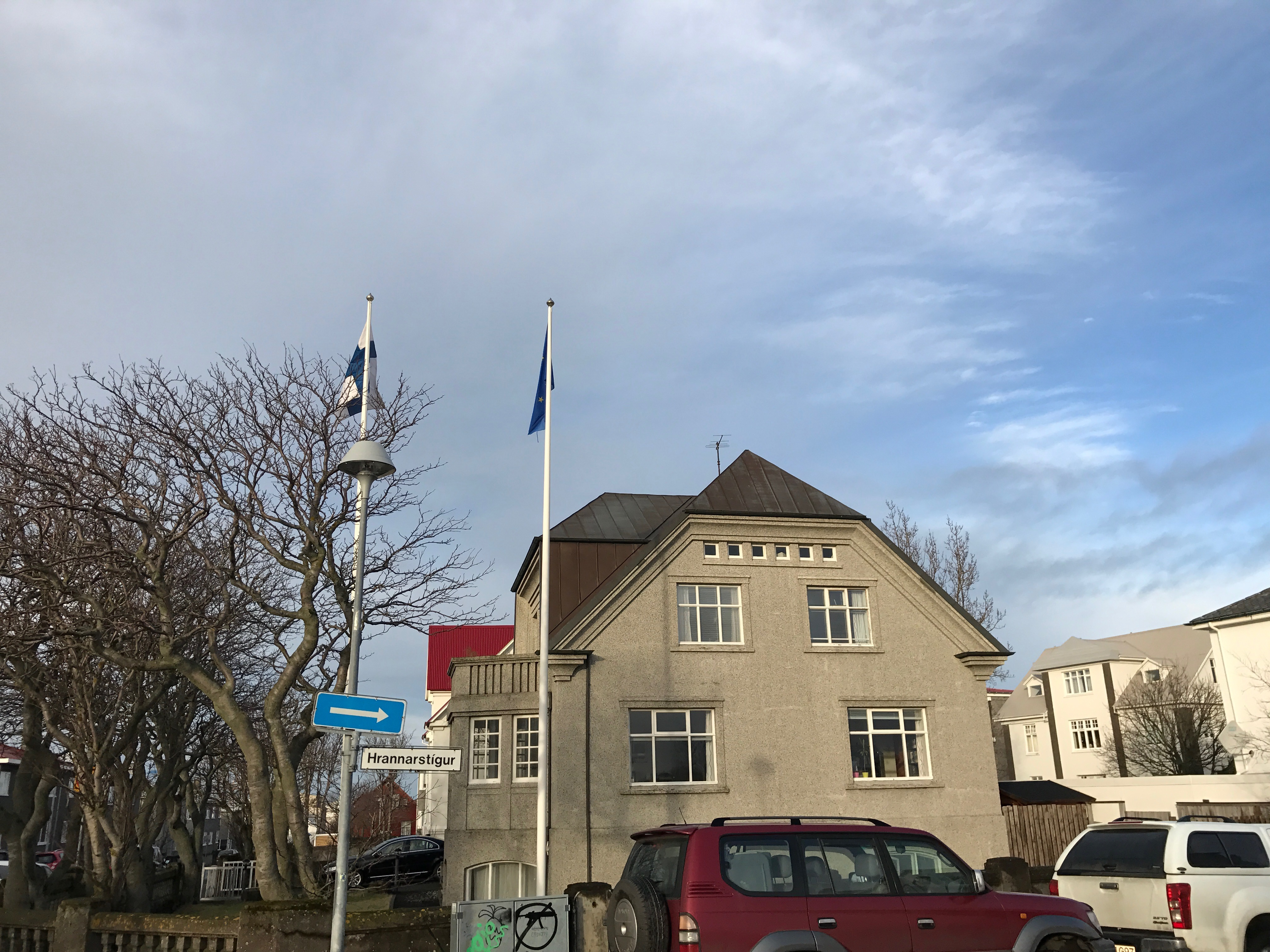 Embassy of Finland in Reykjavik, Iceland